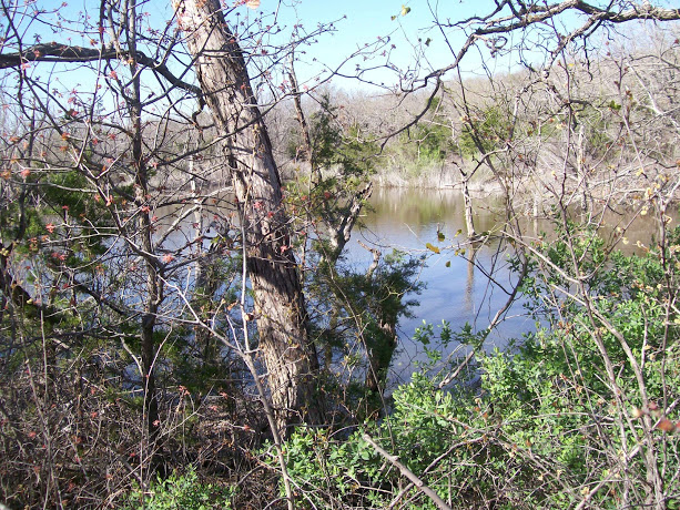 An impoundment on Flatrock Creek, Young County Texas